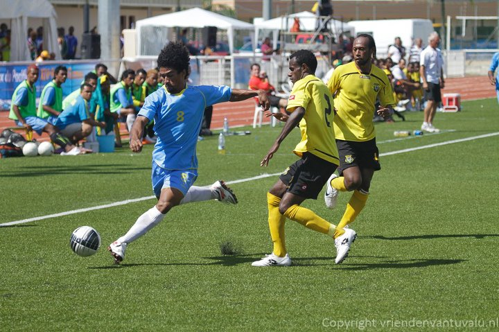 Tinilau_03